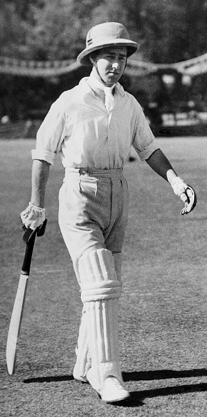 Norman Yardley walks out to bat for Lord's Tennyson's XI during the unofficial Test match against India in Lahore, 13th November 1937. Their partnership of 132 helped to set up a nine wicket victory for the tourists. The match was held up for two minutes on the second day when an earthquake shook the ground.